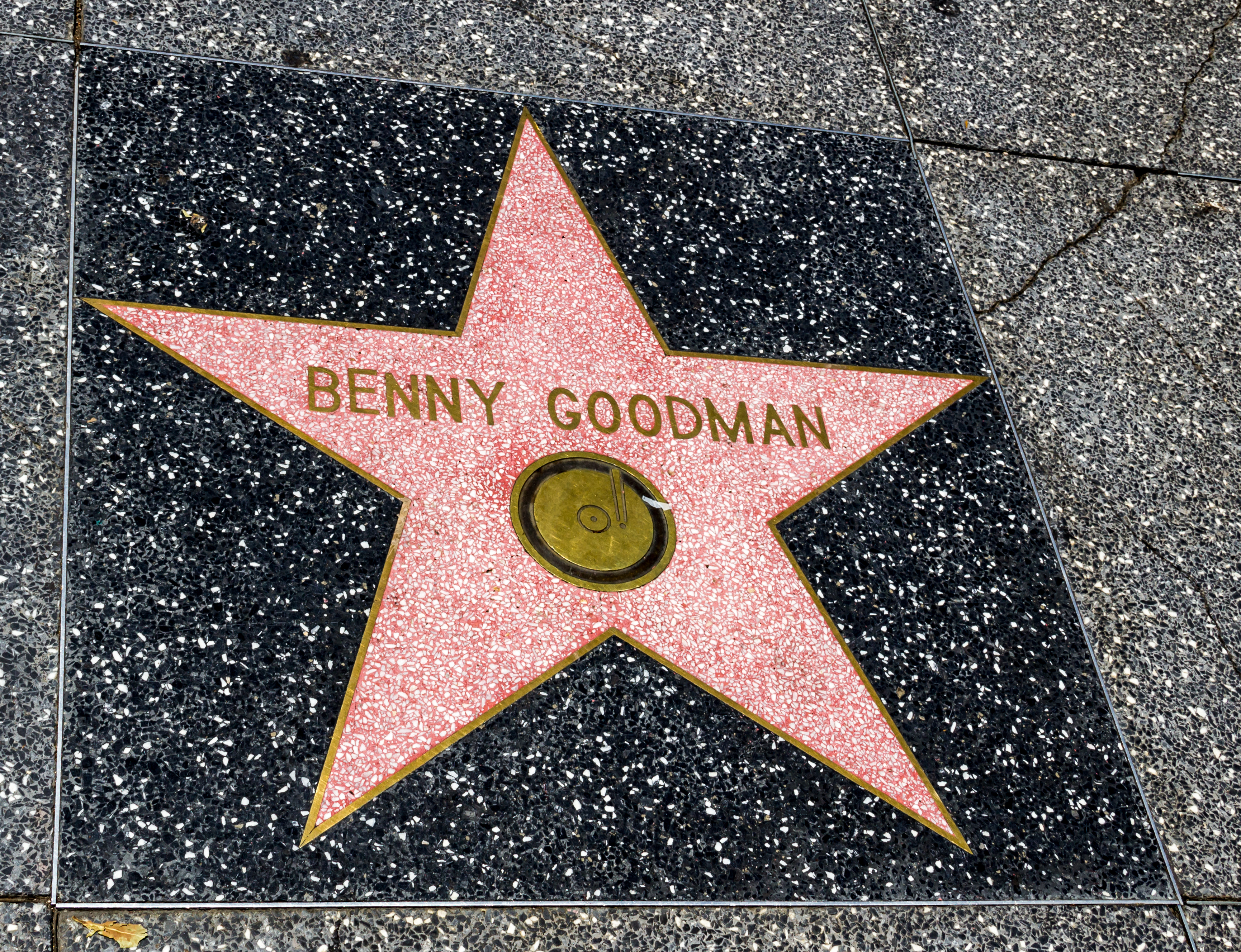 Star “Benny Goodman” at the Hollywood Boulevard in Los Angeles, California, USA